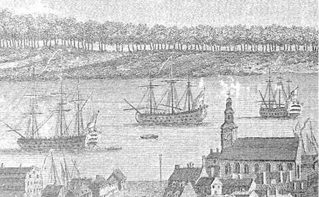 "Part of the Town and Harbour of Halifax in Nova Scotia looking down Prince Street to the Opposite Shore shews the Eastern Battery, George & Cornwallis Islands, Thrum Cap, &c. to the Sea off Chebucto Head", 1759 - inset